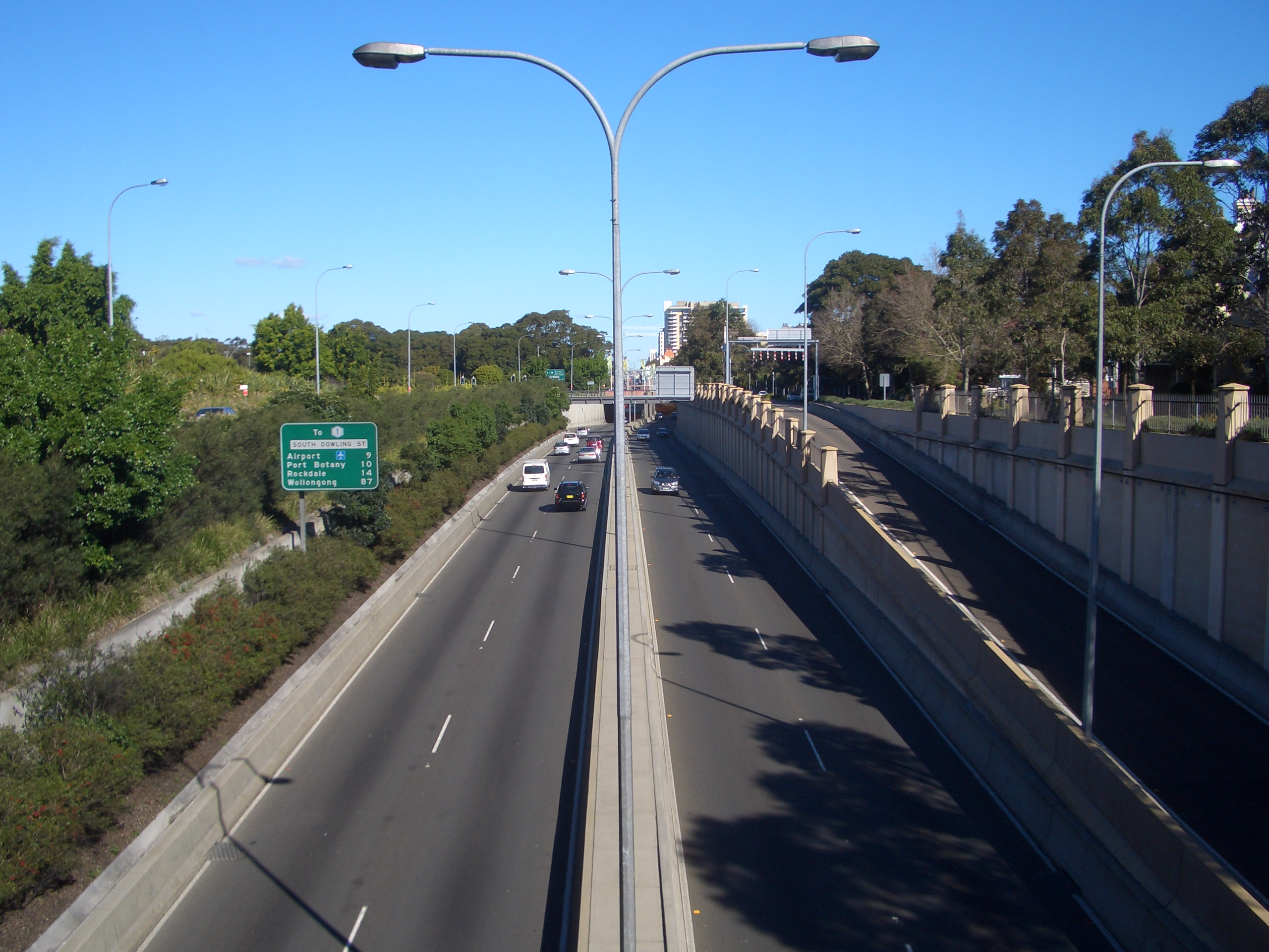 Eastern Distributor, Sydney, from footbridge between Moore Park and Surry Hills